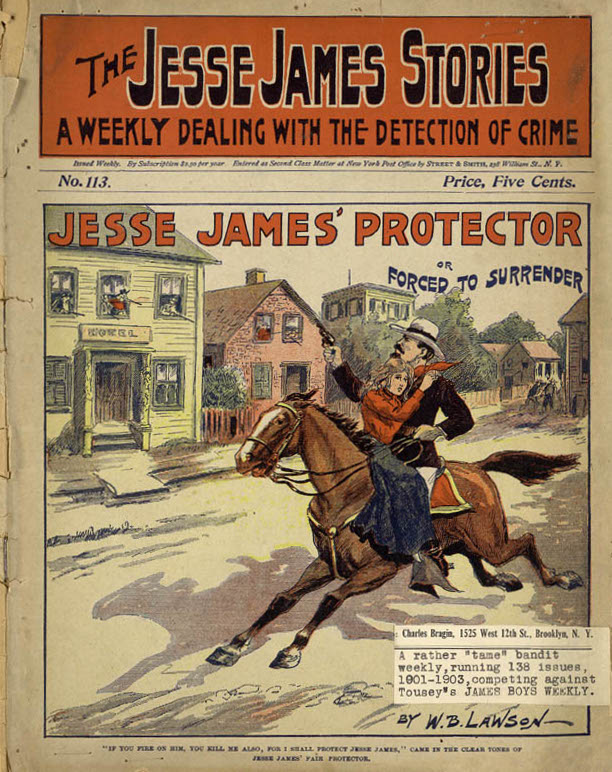 A dime novel featuring Jesse James. (5 cents.